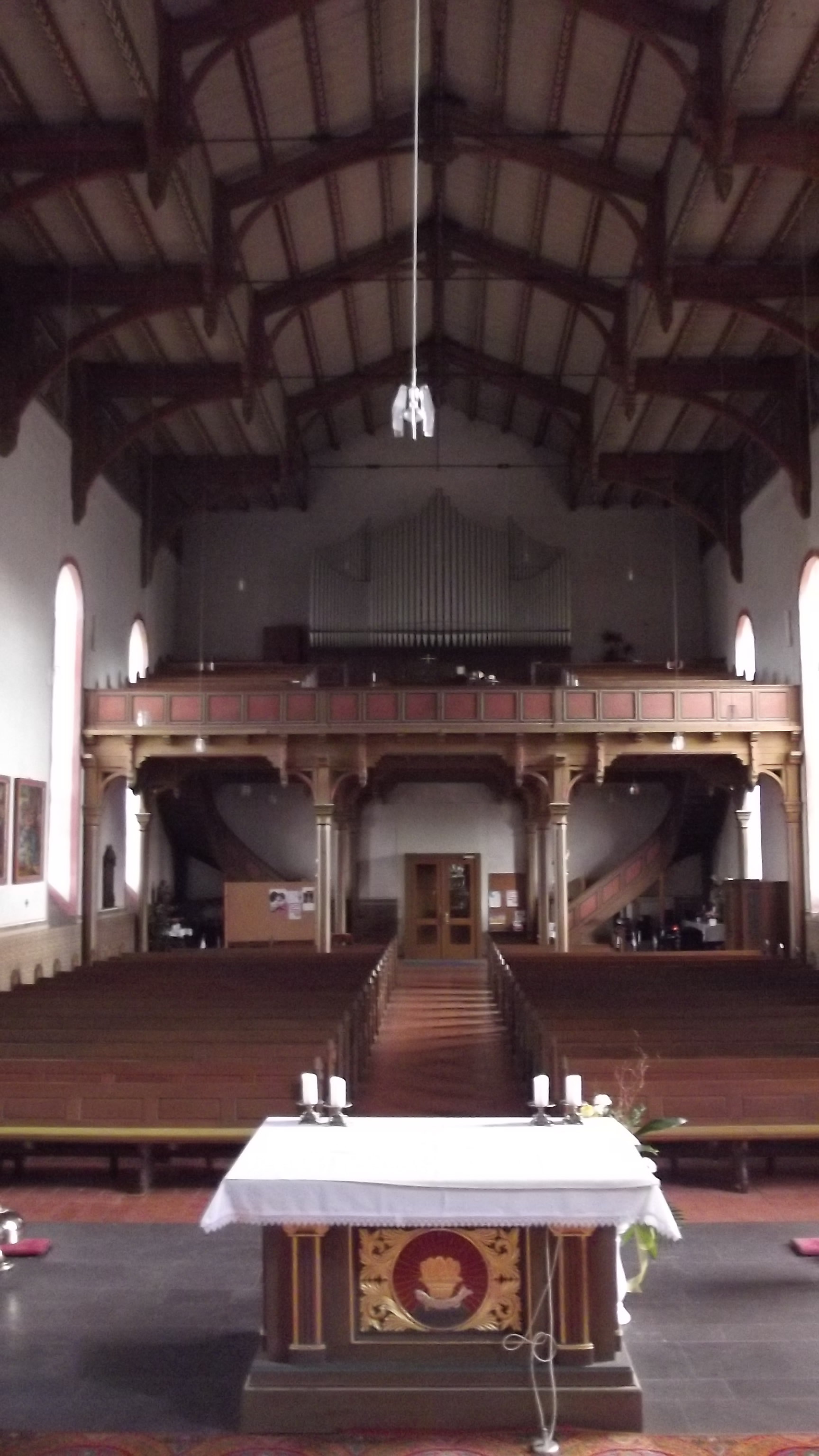 Interior of the roman catholic church in Neunkirchen (Nahe), Saarland